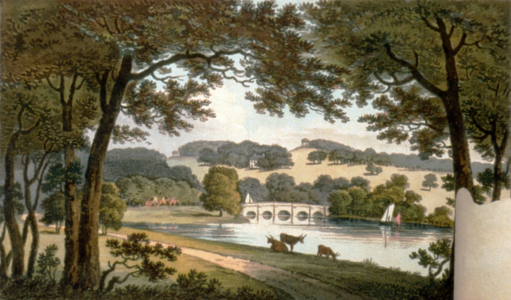 "Water at Wentworth, Yorkshire"